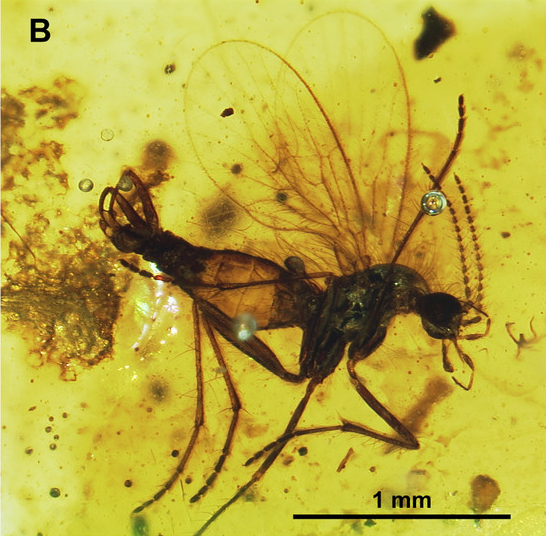 Protopsychodinae. (B) Datzia setosa ♂, Holotype specimen.